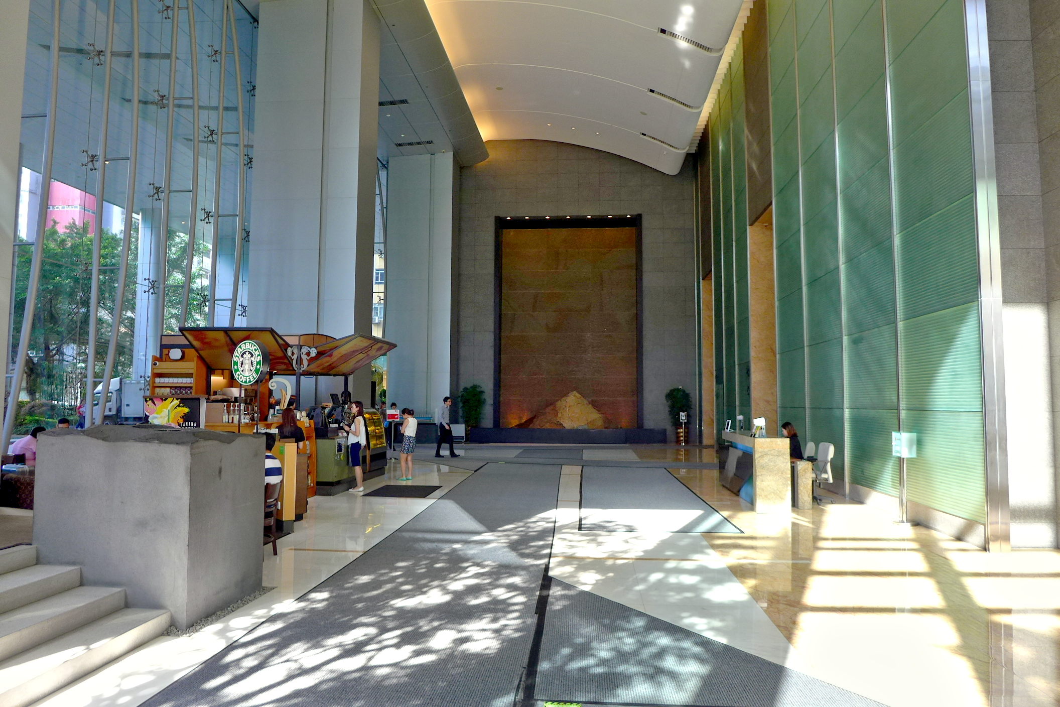 One Kowloon Office Lobby